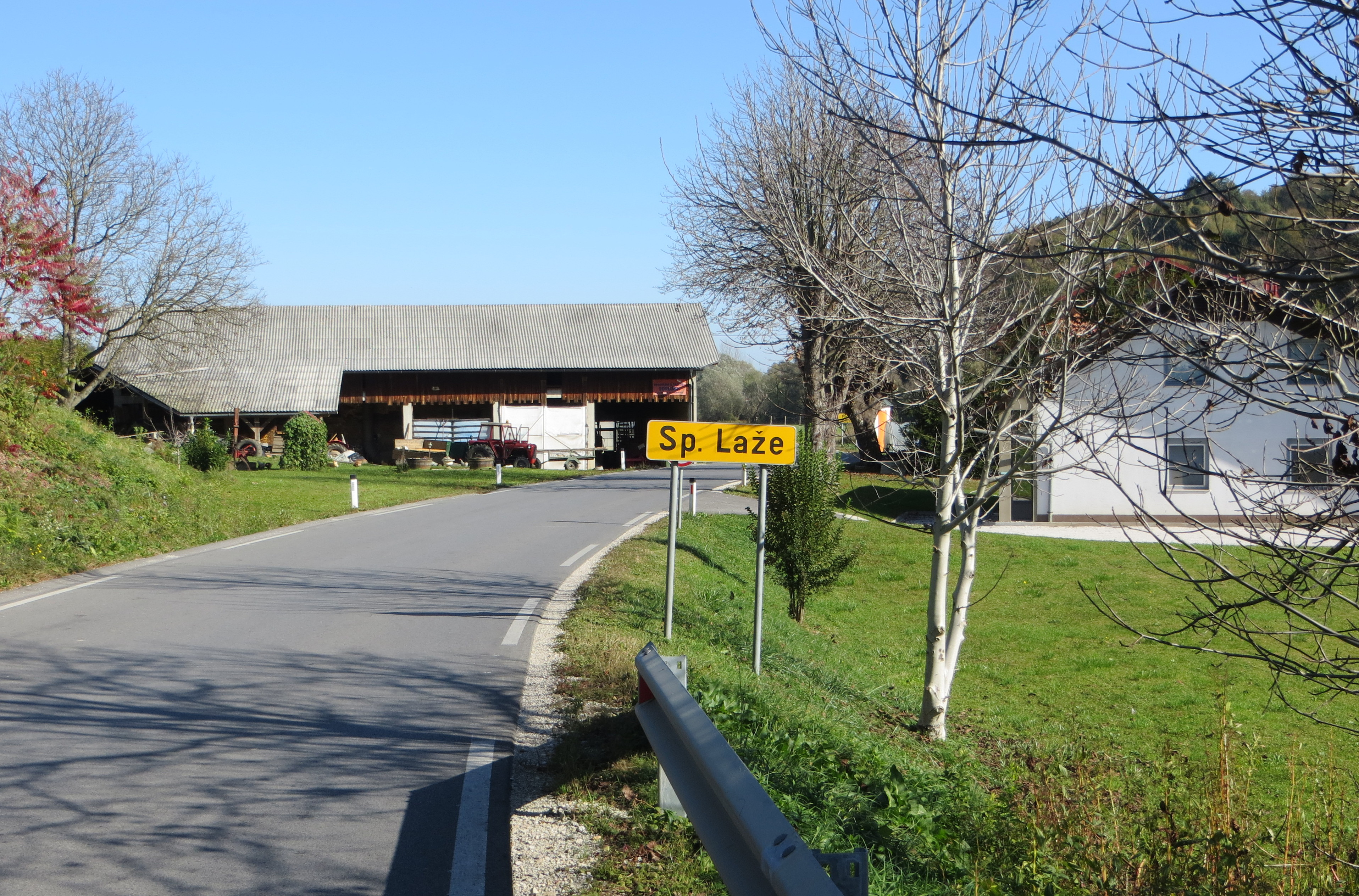 Spodnje Laže, Municipality of Slovenske Konjice, Slovenia